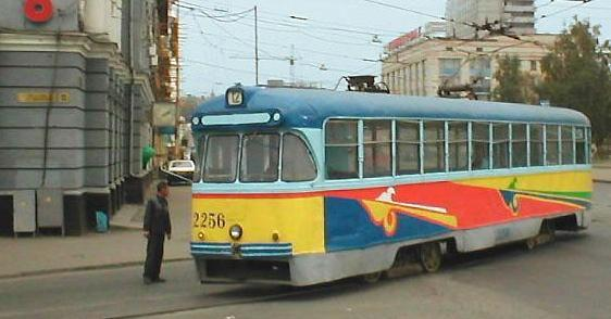 Tram in Kazan, Russia.